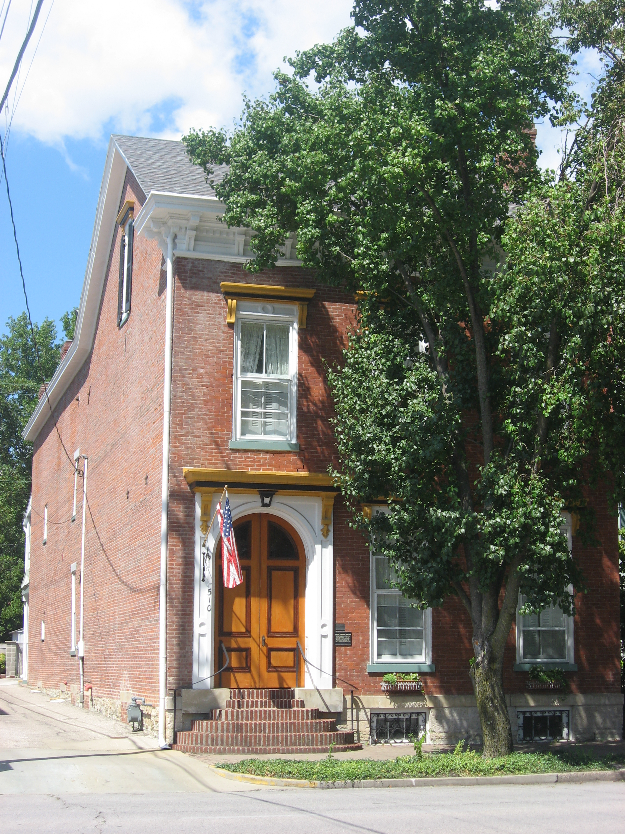 Front and western side of the Crawford-Whitehead-Ross House, located at 510 W. Main Street (State Road 56) in Madison, Indiana, United States. Built in 1833, it is listed on the National Register of Historic Places, and it is part of a National Historic Landmark-designated historic district, the Madison Historic District.